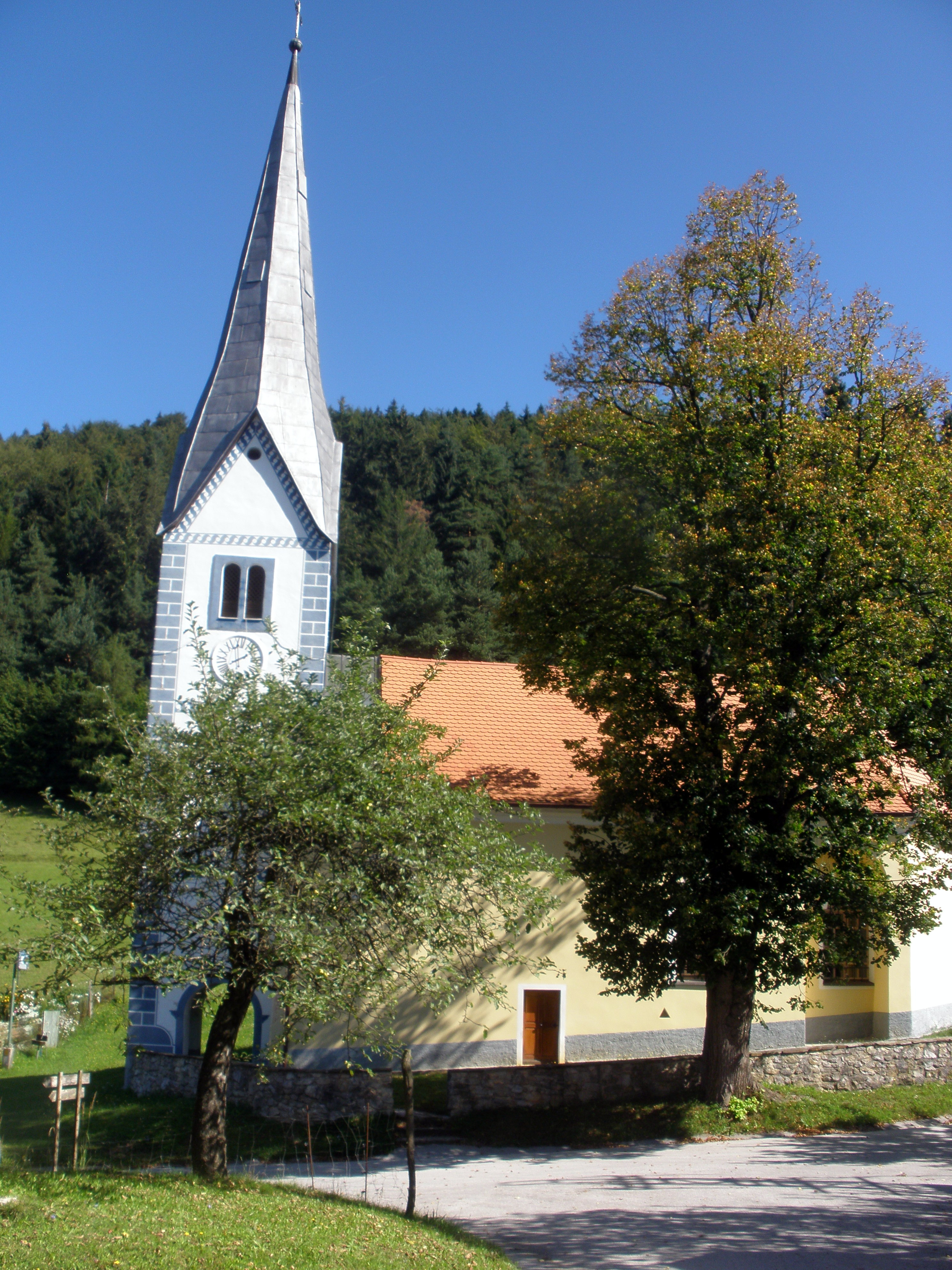 Church in Šenbric near Velenje, Slovenia